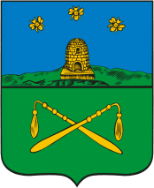 Kadom (Ryazan oblast), coat of arms (1781)